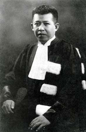 Photograph of Pridi Panomyong as a scholar, Prime Minister and Regent of Thailand, Founder of Thammasat University